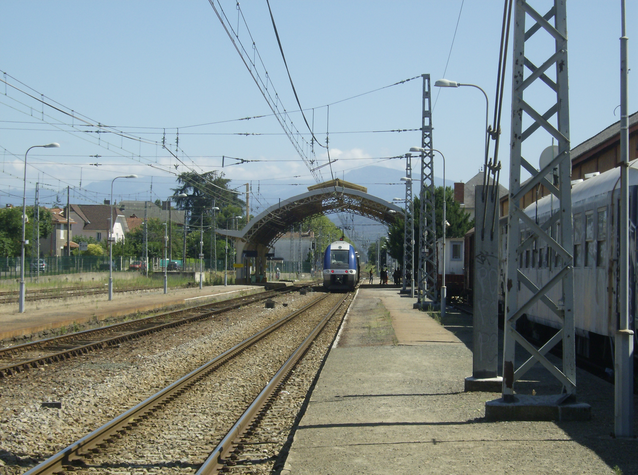 A train waits in the station for another to come off the single track section to the south.